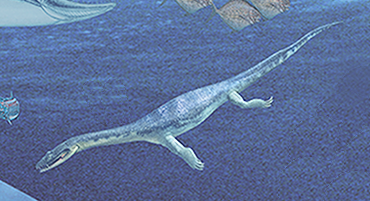 Cropped image of taxon in file name